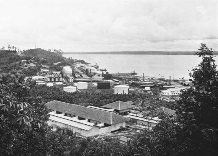 View over Balikpapan Bay and the oiltanks of the BPM